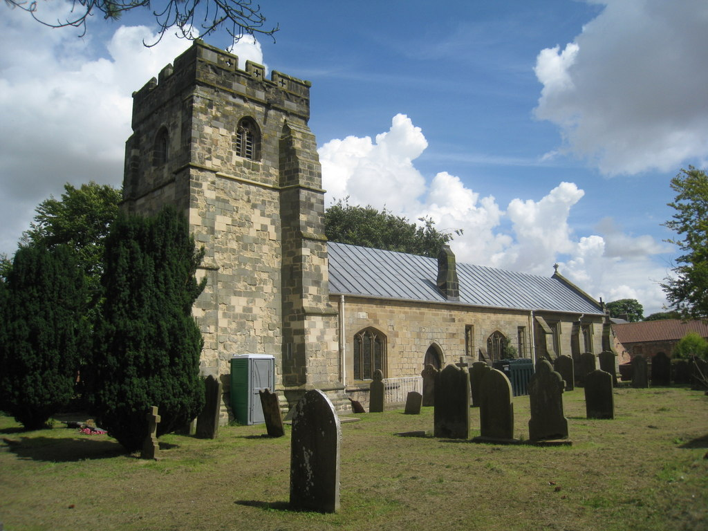 St. Nicholas Church, Wetwang, East Riding of Yorkshire, England.A portable toilet is the answer. Most churches are listed buildings and getting consent to install toilet facilities is often far from easy and prohibitively expensive. So the answer, as here at St. Nicholas, Wetwang, is a portable toilet.